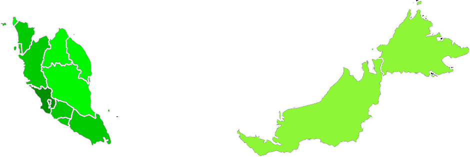 This is a choropleth map showing the states and federal territories of Malaysia as of 2017, based on data from Global Data Lab. This map is created using Paint X Lite, downloaded from the App Store. 0.850–0.899 0.800–0.849 0.750–0.799 0.700–0.749